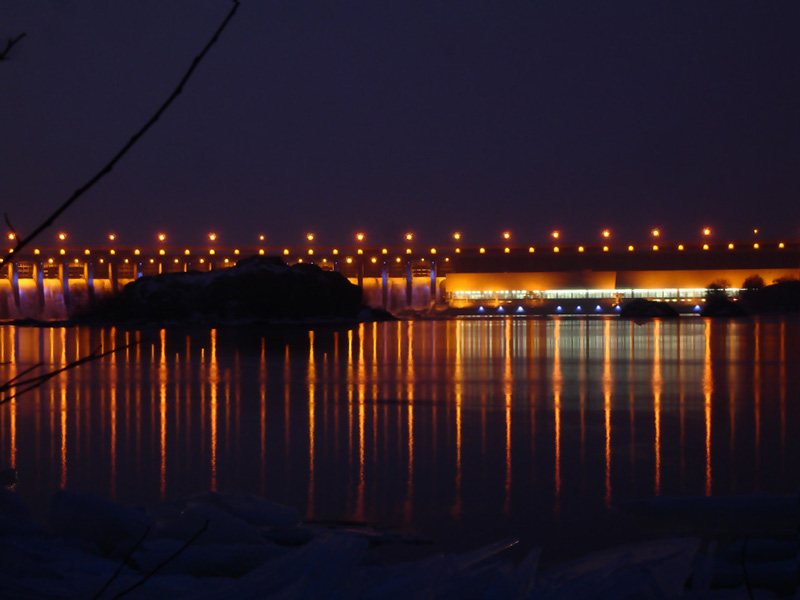 The night view of DniproHES Hydroelectric power-station from island Khortytsya